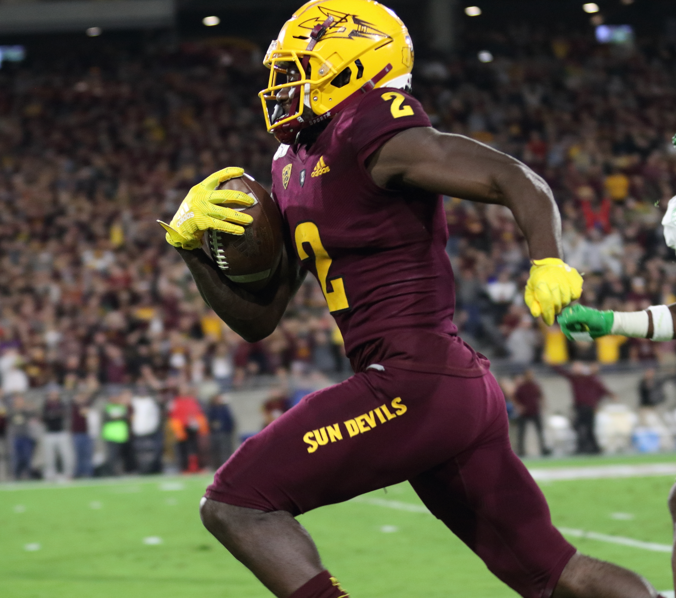 ASU #2 Brandon Aiyuk racing down the sidelines to the endzone'